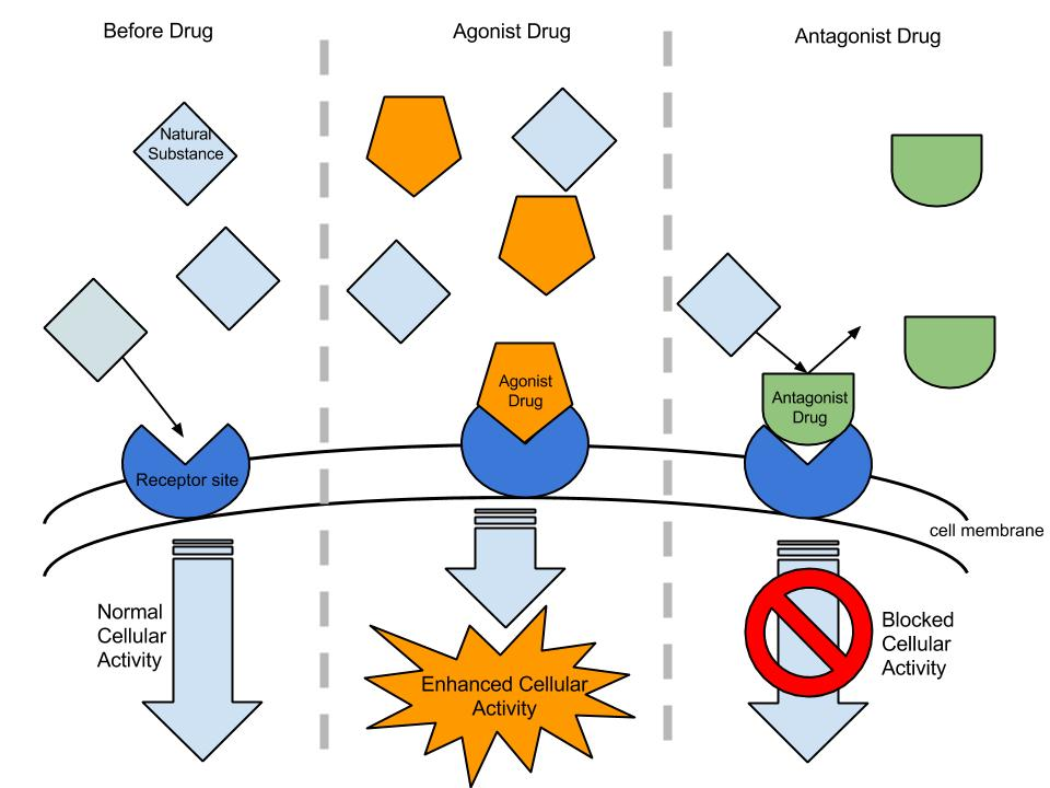 Agonist & Antagonist Drugs